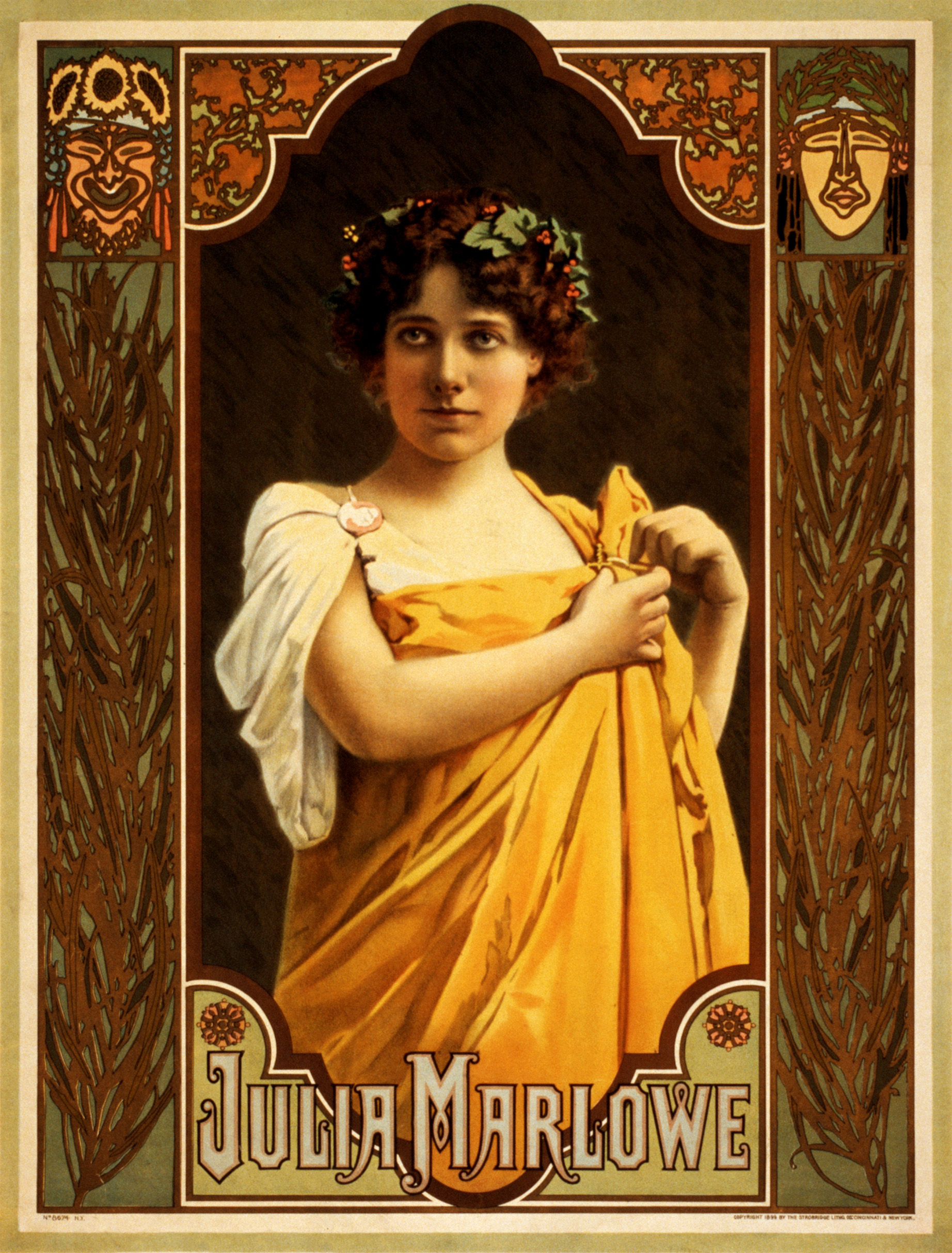 Theatrical poster of American actress Julia Marlowe